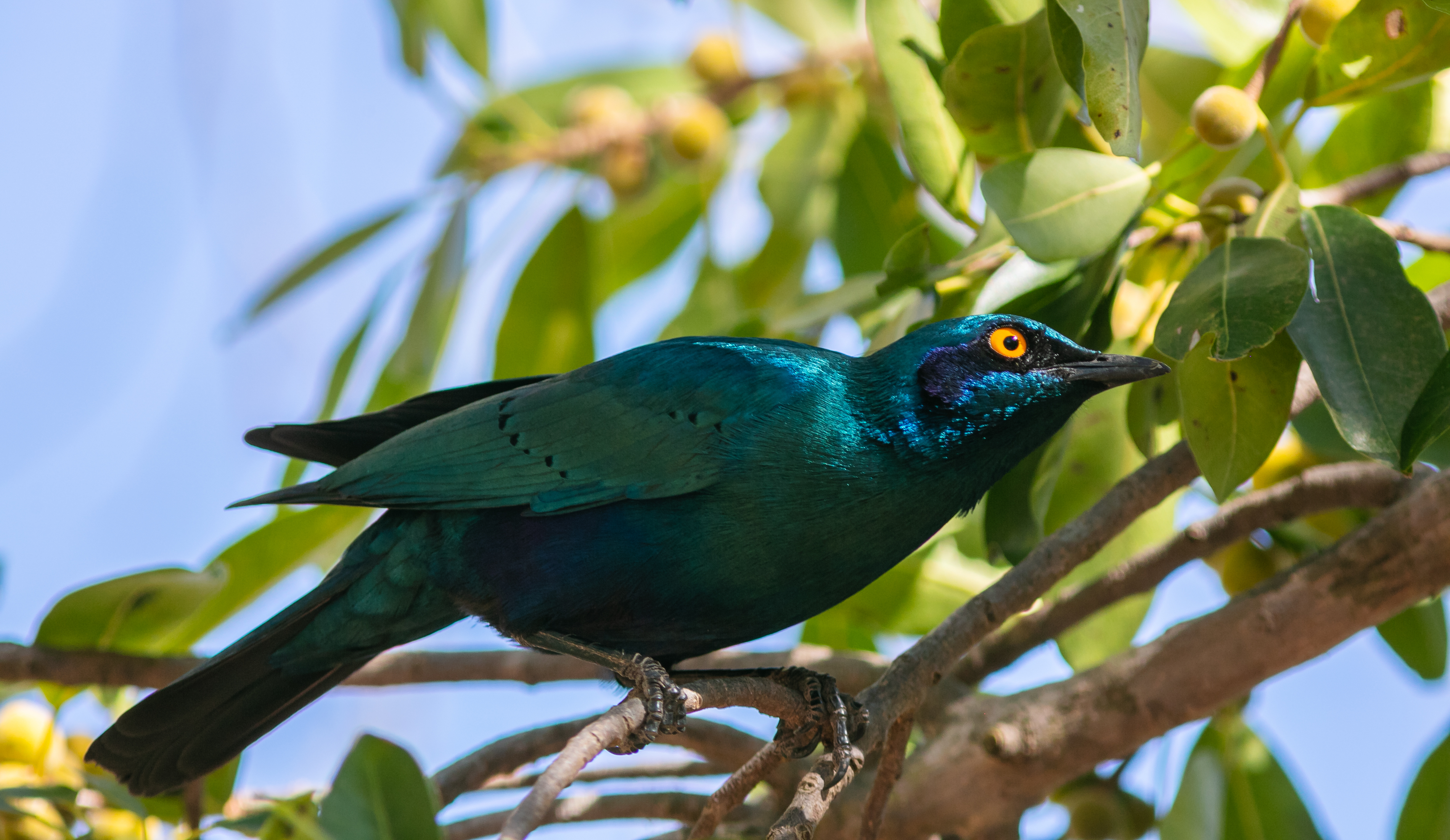 Greater blue-eared starling (Lamprotornis chalybaeus) in a fig tree (Ficus sp.) in the Kruger National Park, South Africa